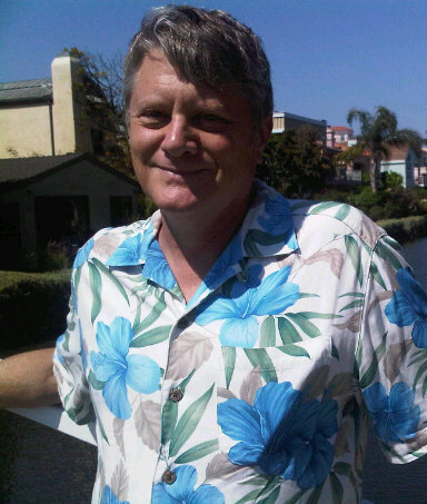 Brant Houston